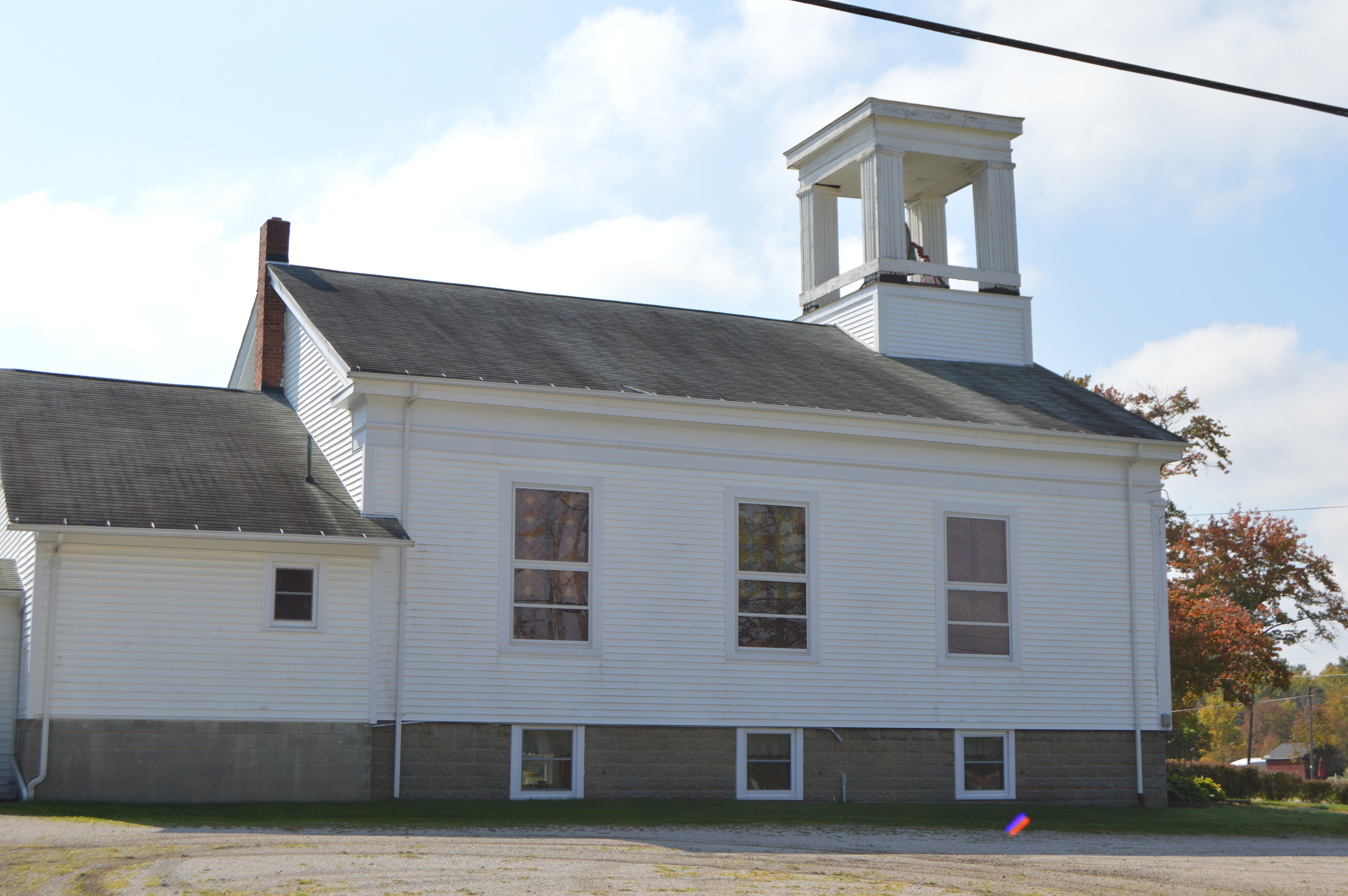 Northern side of the Lenox Christian Fellowship, located on the southeastern corner of the junction of Footville-Richmond and Lenox-New Lyme Roads at Lenox Center, Ohio, United States.